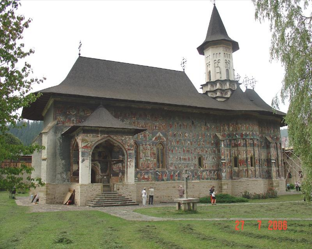 The Sucevita Monastery in Suceava district South Bukovina Romania 01